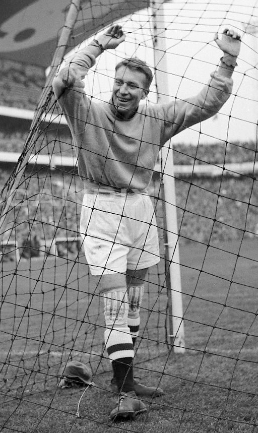 Henry From at a Denmark-Finland match